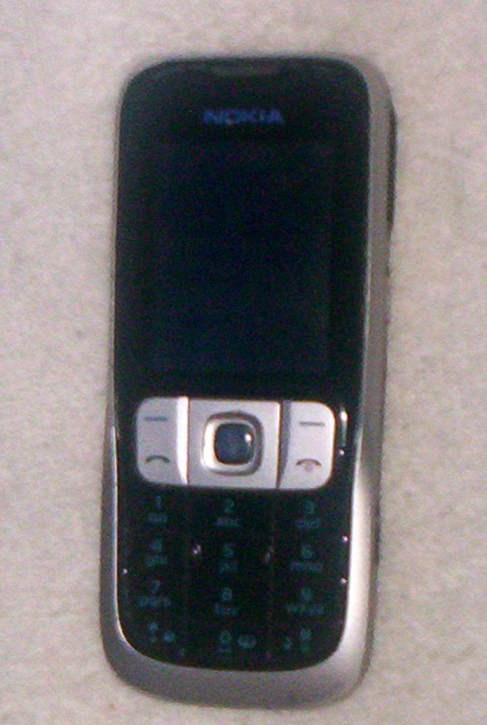 Nokia™ 2630 phone